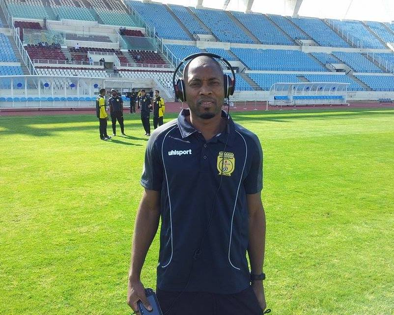 Sidy Keita at Camille Stadium for match against Al Ansar.; Camille Stadium, Beirut, Lebanon